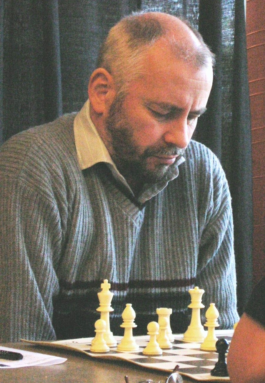 Chess Grand Master Alexander Ivanov. The board shows his typical king's fianchetto (King's Indian Attach) for White.